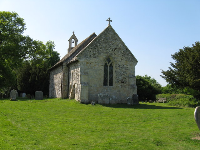 All Saints Church Buncton View from the east